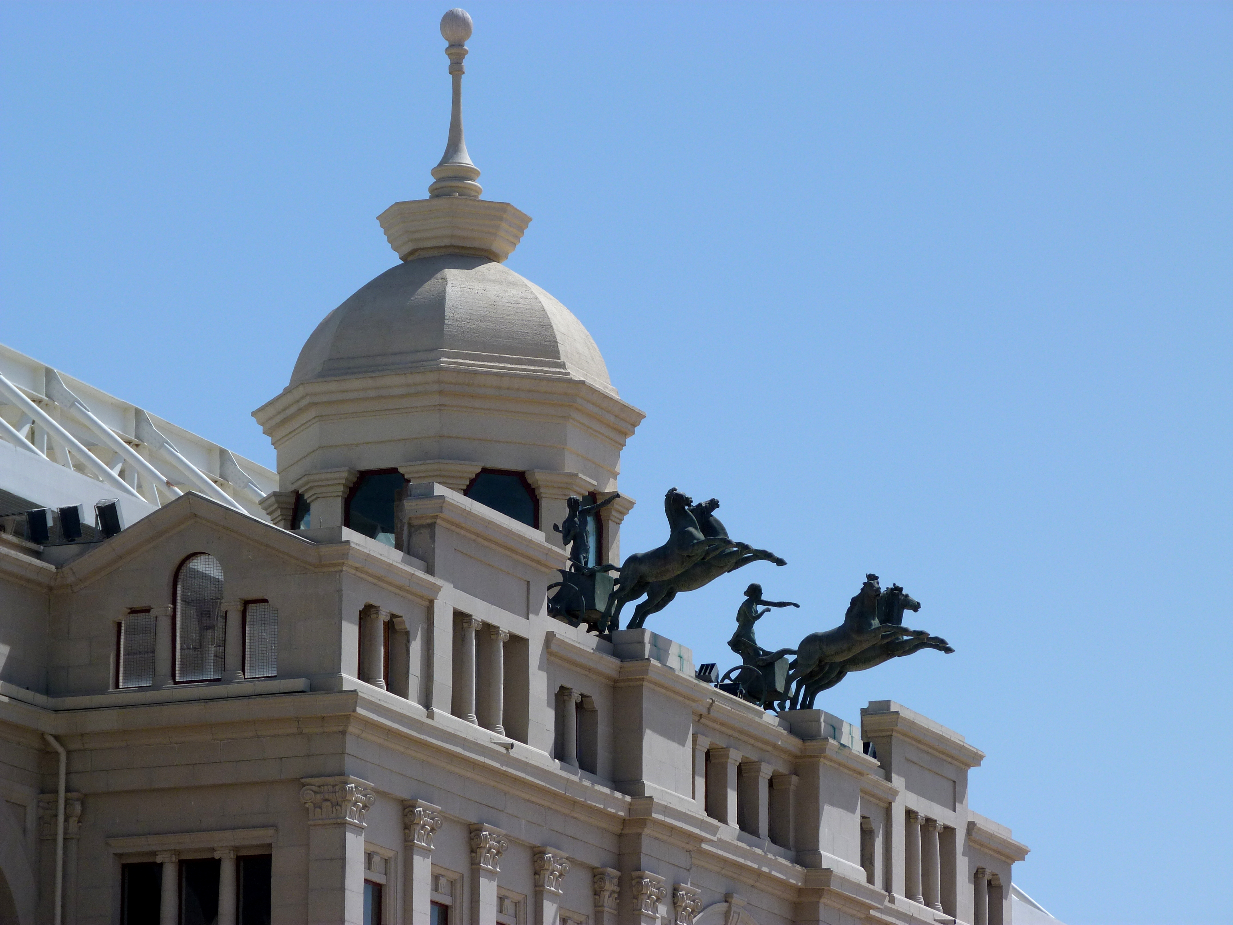 Barcelona Olympic Stadium